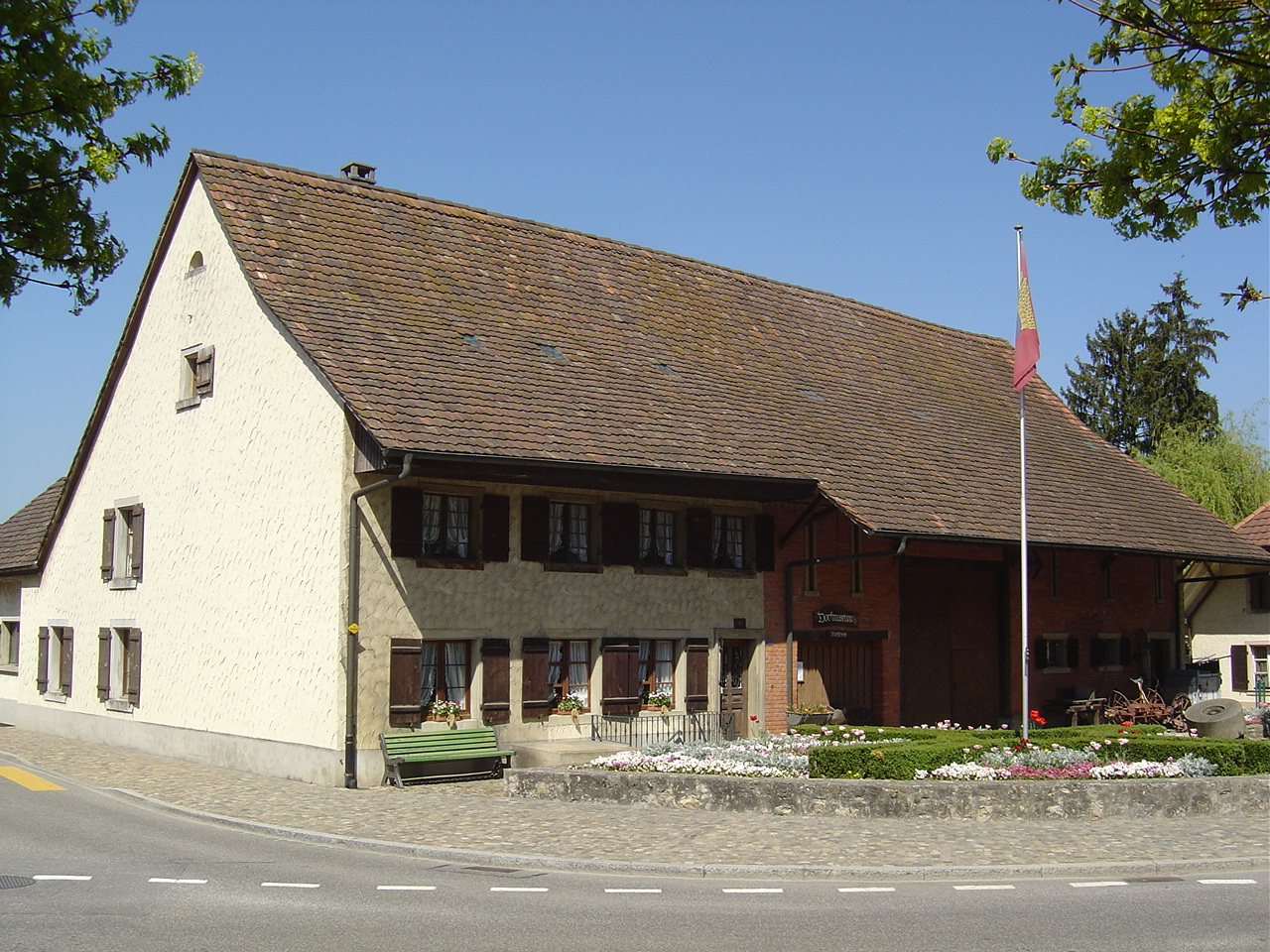 Village museum Möhlin